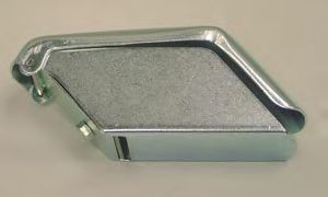 Hand Ice Shaver used by "Piragueros" in Puerto Rico.